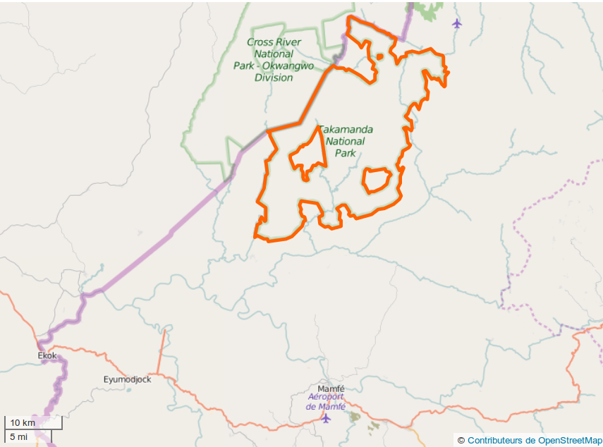 Takamanda National Park, Cameroon, OSM. This map may be incomplete, and may contain errors. Don't rely solely on it for navigation.